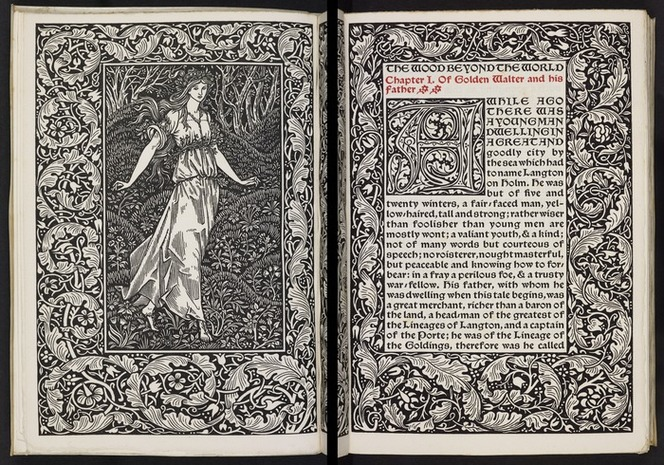 Frontispiece and opening page of a "The Wood Beyond the World". Author/Contributors: Morris, William, 1834-1896.; Burne-Jones, Edward Coley, 1833-1898 ill.; Morris, William, 1834-1896. printer.; Kelmscott Press. printer.; J. & J. Leighton. binder. Notes: "Made by William Morris and printed by him at the Kelmscott Press, Upper Mall, Hammersmith. Finished the 30th day of May, 1894. Sold by William Morris at the Kelmscott Press"--Colophon. Text printed in Chaucer type. Chapter titles and shoulder notes printed in red, printed on watermarked Flower paper. Ornate woodcut initials and half borders, side and corner borders throughout text. Cf. Peterson. Engraved ill. (woodcut) on p. [4], 1st set. Text on p. [1] printed in red and black within ornate woodcut border. Printer's device below colophon. "Wood-engraved frontispiece designed by Burne-Jones"--Peterson. Limited ed. of 350 copies printed on paper, 8 on vellum. Cf. Peterson. Binding: limp vellum, narrow yapp edges, silk ties threaded through cover, spine lettered in gilt (Golden type) ; bound by Leighton. Cf. Peterson. Peterson, W.S. Kelmscott Press, A27 Tomkinson, G.W. Modern presses, p. 114 Book was first published in 1894 and its author, William Morris is often considered one of the authors who aided in the growth of fantasy, utopian literature, and science fiction. C.S. Lewis cites William Morris as one of his favorite authors and J.R.R. Tolkein admits to being influenced greatly by Morris' fantasies. The hero of this romance is named Golden Walter, son of Bartholomew Golden, a great merchant in the town of Langton on Holm. Tired of his mundane life, Walter sets out on a sea voyage, anxious to see and learn more of the outside world, eventually winning for himself the kingdom of Stark-Wall and the love of a beautiful maiden.